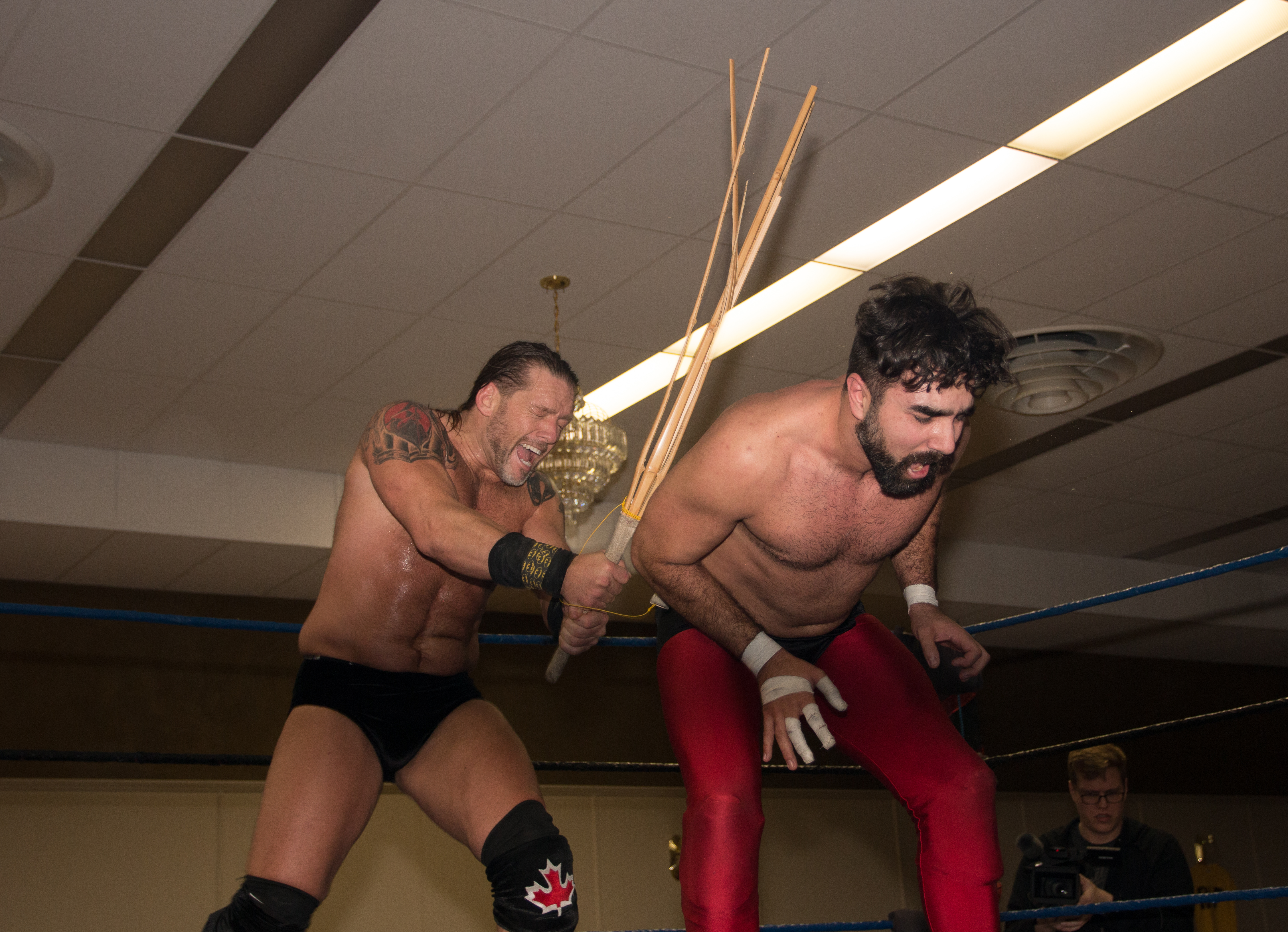 Independent pro wrestler Johnny Devine (left) uses a shinai on Buck Gunderson during a match in Oshawa, ON